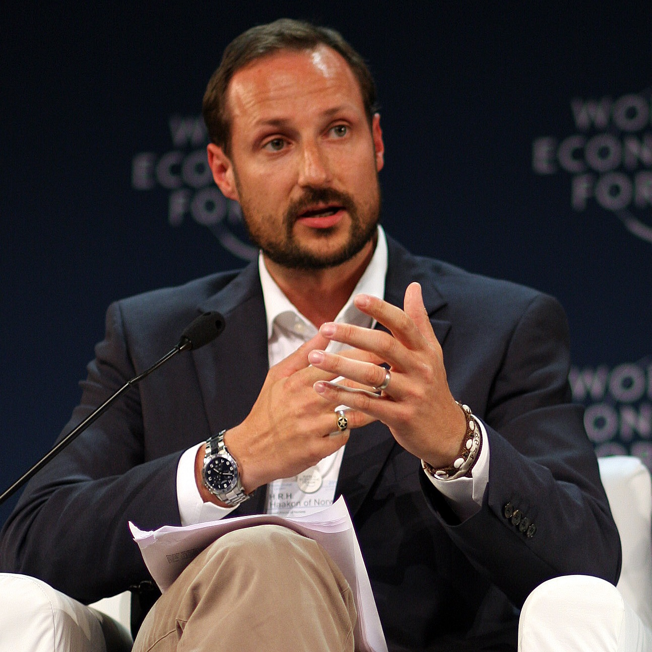 PUERTO VALLARTA/MEXICO, 18APR12 - H.R.H. Crown Prince Haakon of Norway, Crown Prince of Norway; Co-Chair of the World Economic Forum on Latin America captured during Plenary Session 'The Next Generation of Latin American Leadership'at the World Economic Forum on Latin America 2012 in Puerto Vallarta, Mexico. Copyright World Economic Forum ( by Josef Kandoll Wepplo